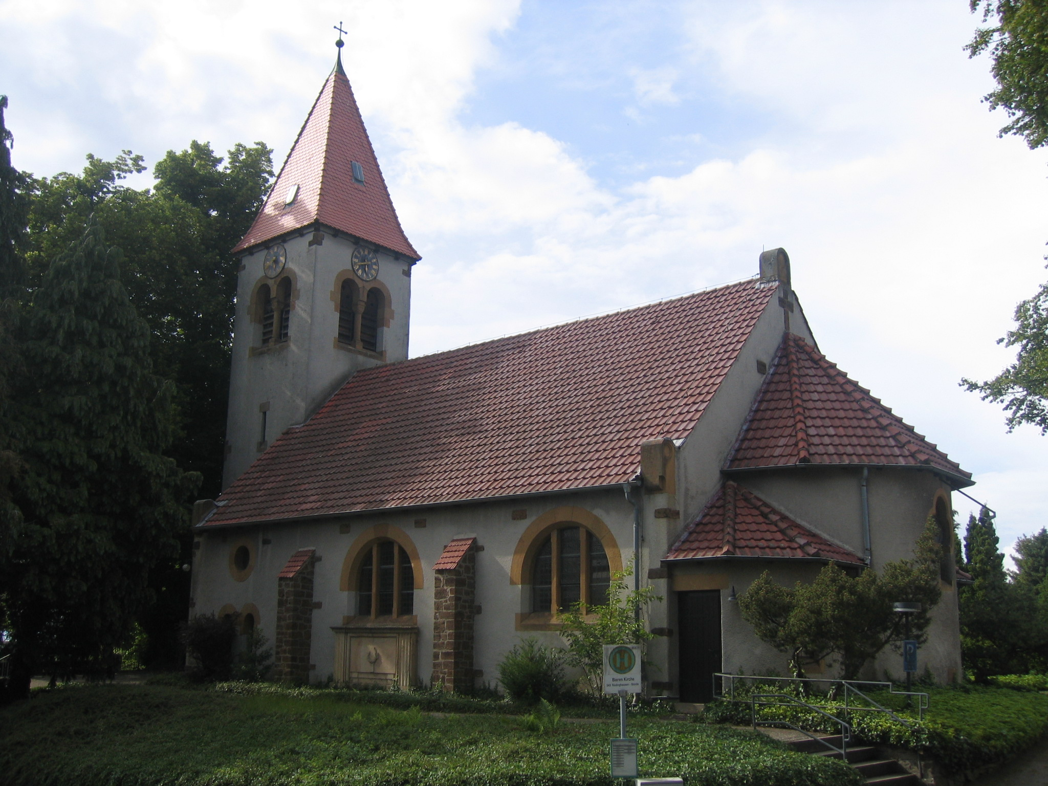 Bieren church in Rödinghausen, District of Herford, North Rhine-Westphalia, Germany.